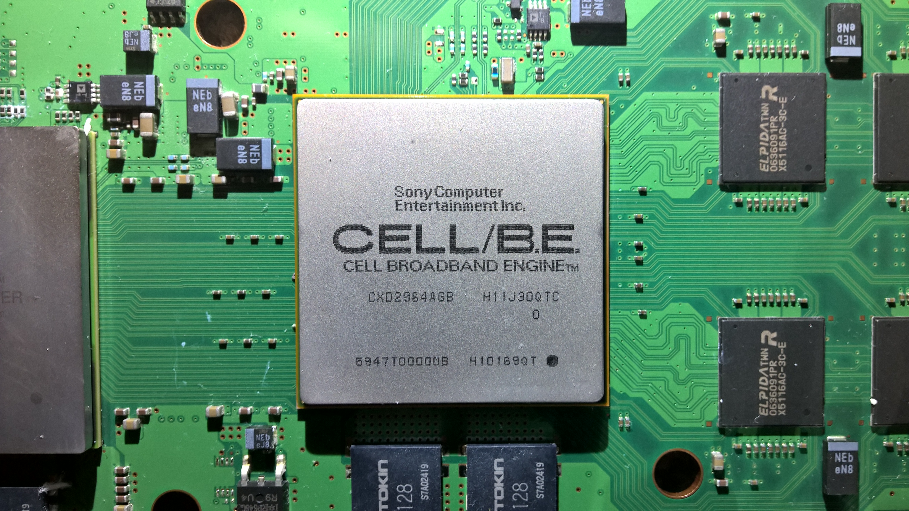 The Cell B.E. Processor as used on the PS3 mother board.